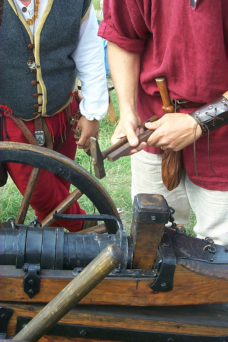 Reconstracted medieval cannon.